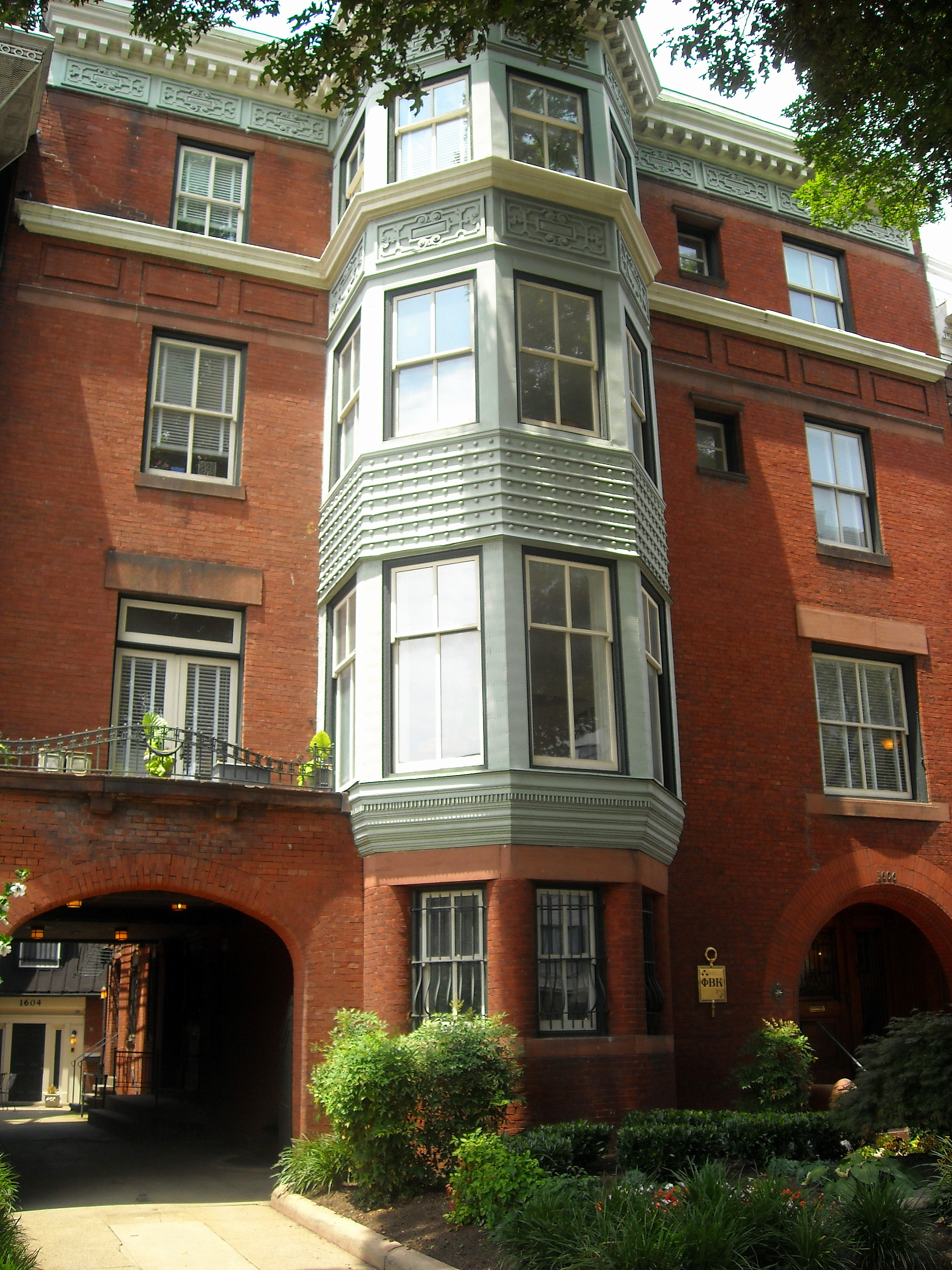 Phi Beta Kappa headquarters at 1606 New Hampshire Avenue, NW in the Dupont Circle neighborhood of Washington, D.C.